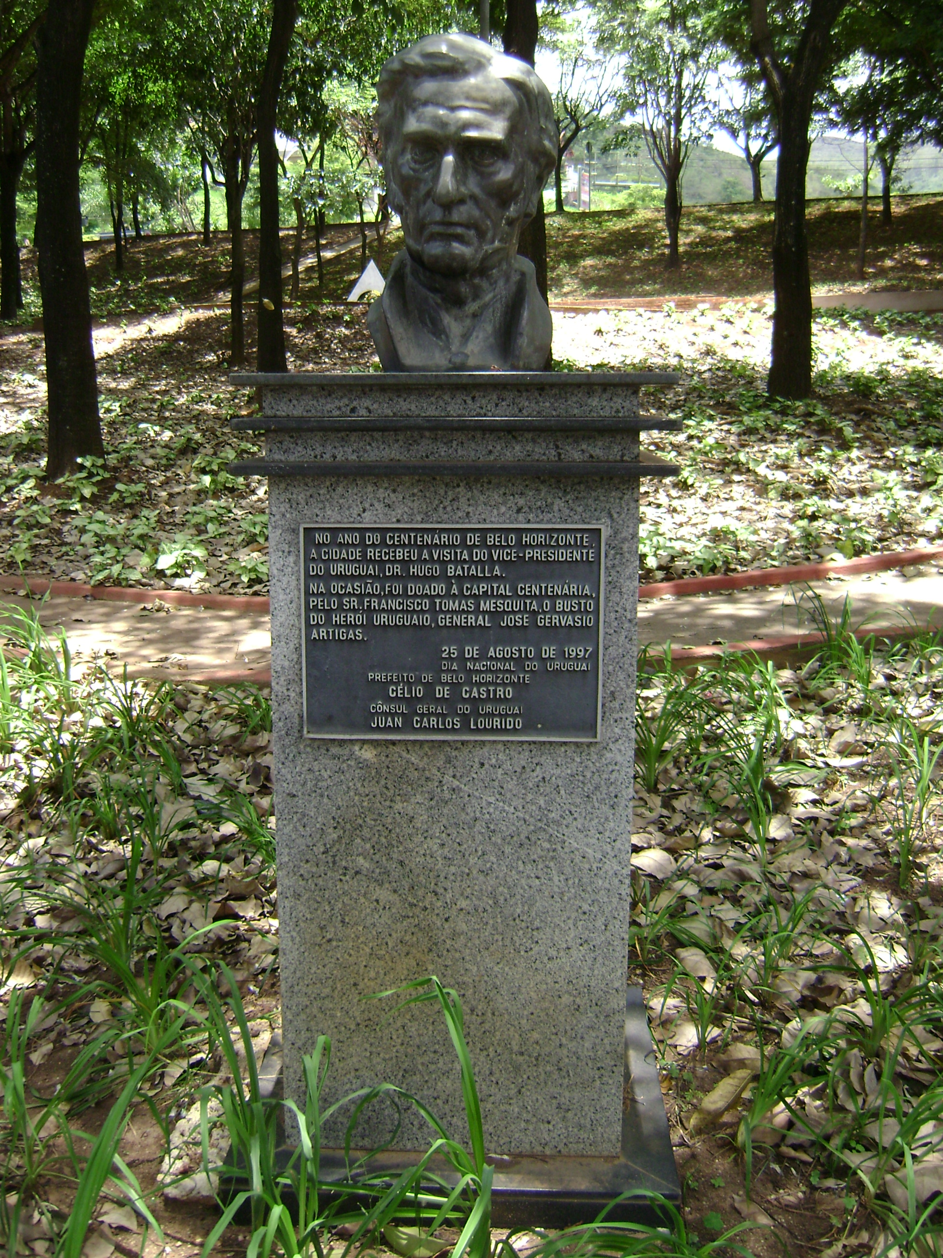 Estátua do general José Gervásio Artigas, na Praça do Rotary, em Belo Horizonte, Brasil.